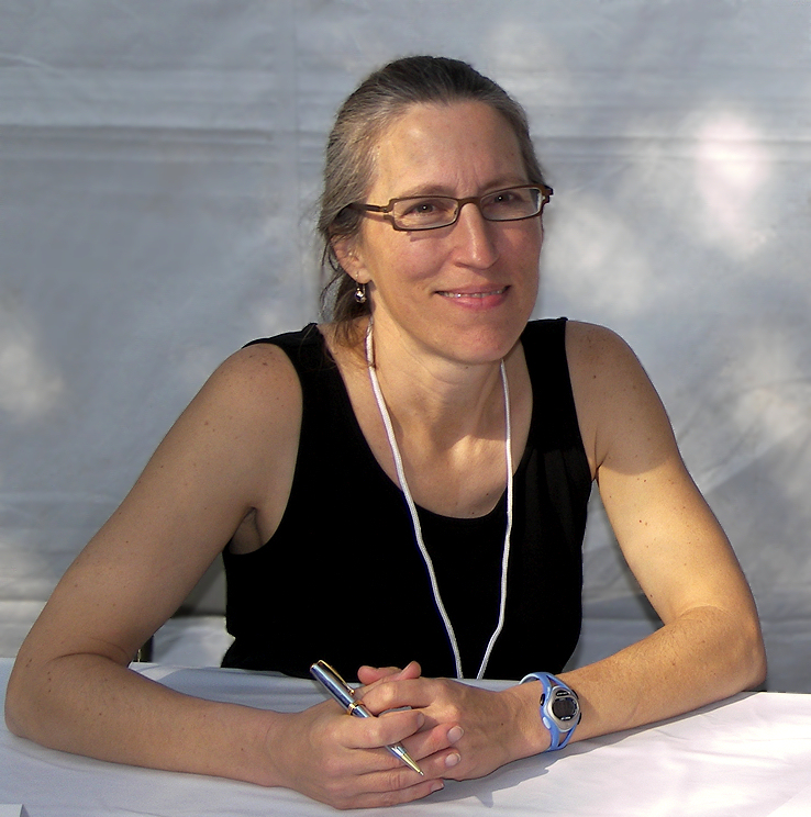 Jane Hamilton at the 2007 Texas Book Festival, Austin, Texas, United States.